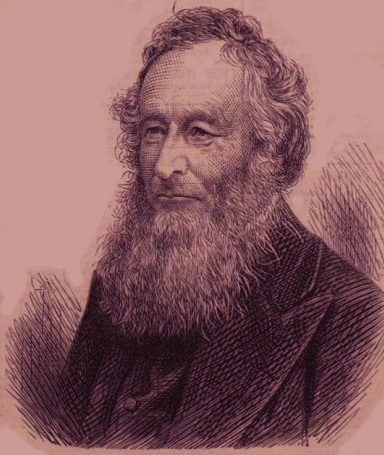 The naturalist Sir William Jardine, in an unattributed drawing published in Dec 1874, accompanying his obituary in the Illustrated London News, Saturday, December 26, 1874, page 609; Issue 1846.